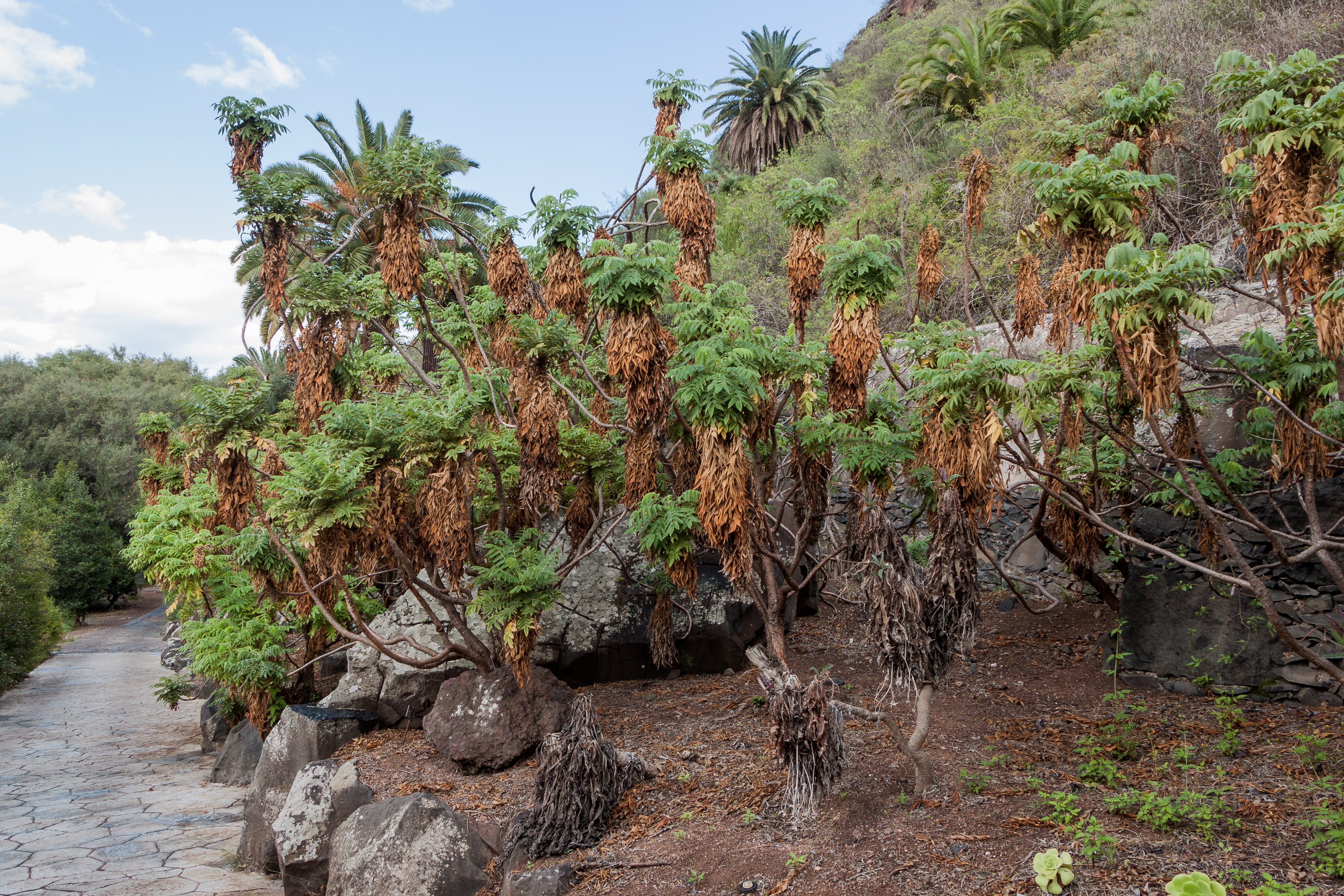 Bencomia sphaerocarpa Svent.; Habitus; Jardín Botánico Canario Viera y Clavijo, Gran Canaria, Canary Islands, Spain.